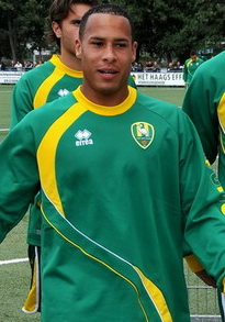 Tjaronn Chery is a Dutch footballer, currently playing for Eredivisie side ADO Den Haag.